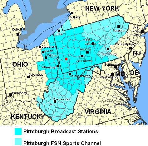 Data is from the National Atlas Website from the Federal Govt. It has been modified by Marketdiamond with geographic names and county coloration to depict the reach of Pittsburgh media.